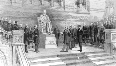 Handing over the statue of Darwin to H.R.H. the Prince of Wales, as representative of the Trustees of the British Museum